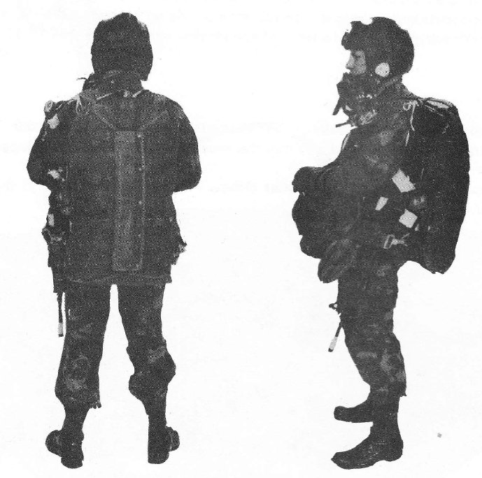 Freifallspringer des US Militärs fertig zum Sprung mit angelegtem MC-3-Freifallsystem. Bild aus Field Manual 31-19 von 1977